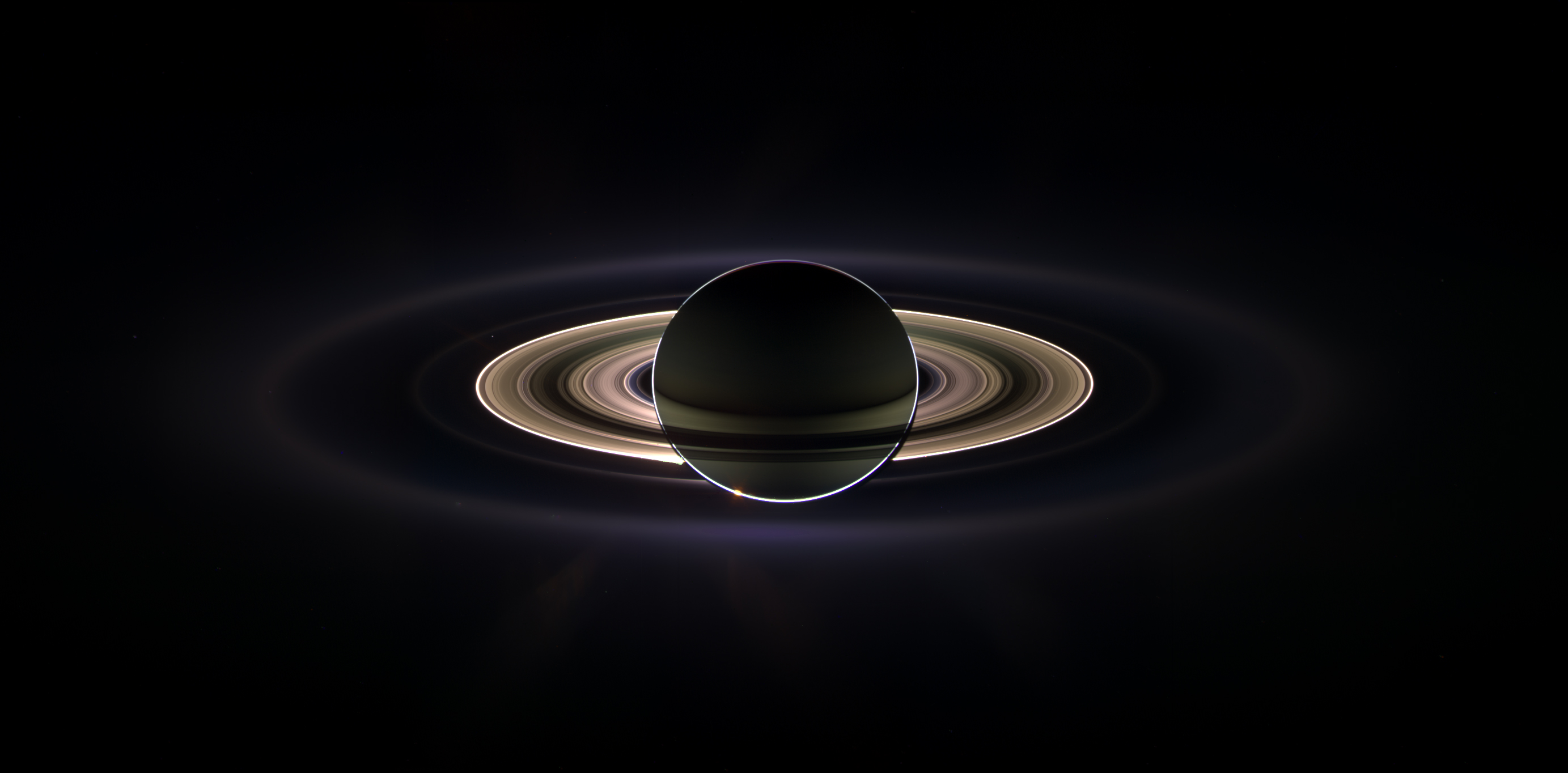 Saturn eclipsing the sun, seen from behind from the Cassini orbiter. The image is a composite assembled from images taken by the Cassini spacecraft on 15 September, 2006. Individual rings seen include (in order, starting from most distant) E ring Pallene ring (visible very faintly in an arc just below Saturn) G ring Janus/Epimetheus ring (faint) F ring (narrow brightest feature) Main rings (A,B,C) D ring (bluish, nearest Saturn) At full resolution, the distant Earth is visible as a dot above the left extremity of the main set of rings. For a detailed description, and